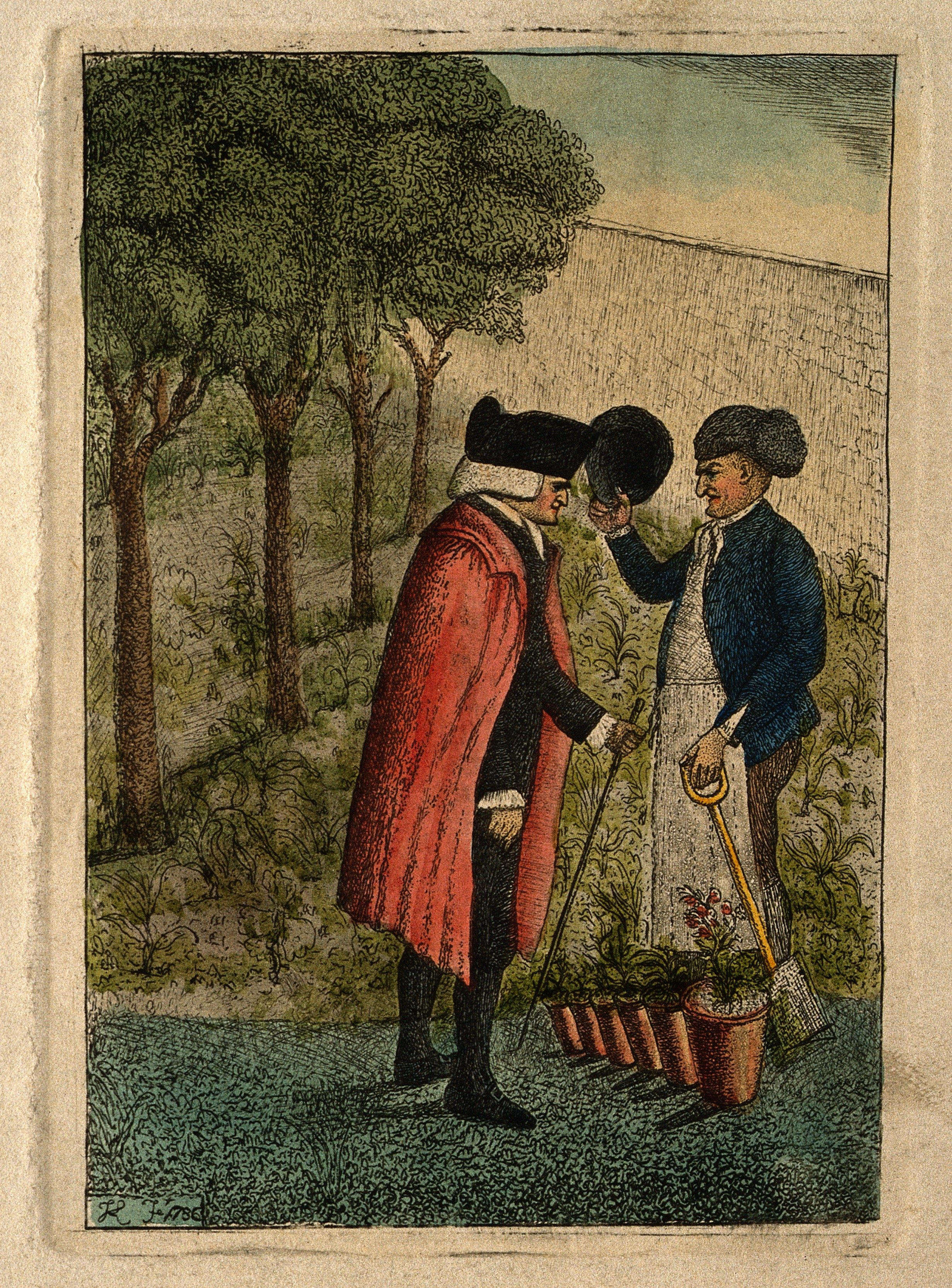 John Hope. Coloured etching by J. Kay, 1786. Iconographic Collections Keywords: portrait prints; etchings; John Hope; John Kay